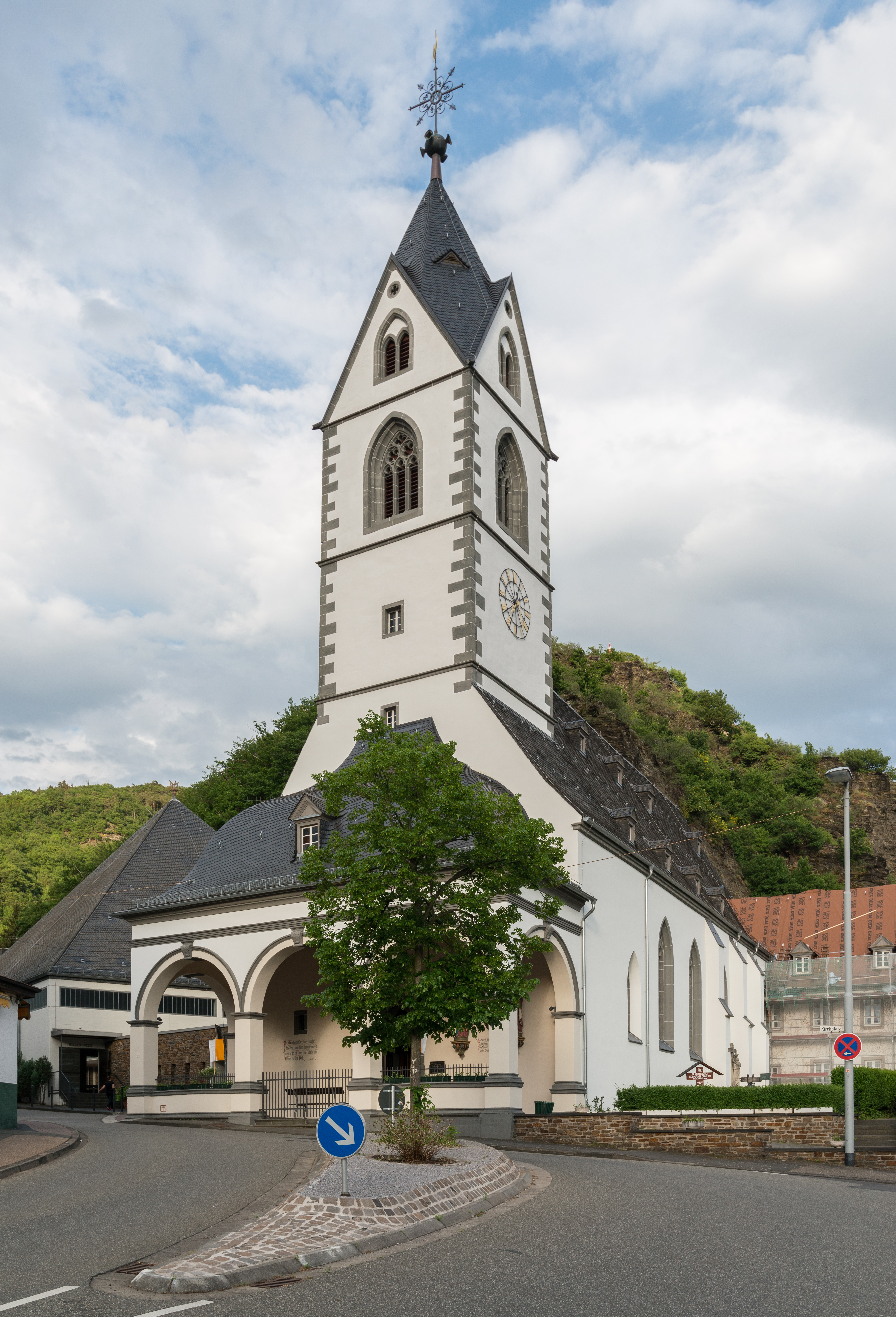 A west view of the abbey church of Kloster Bornhofen in Kamp-Bornhofen